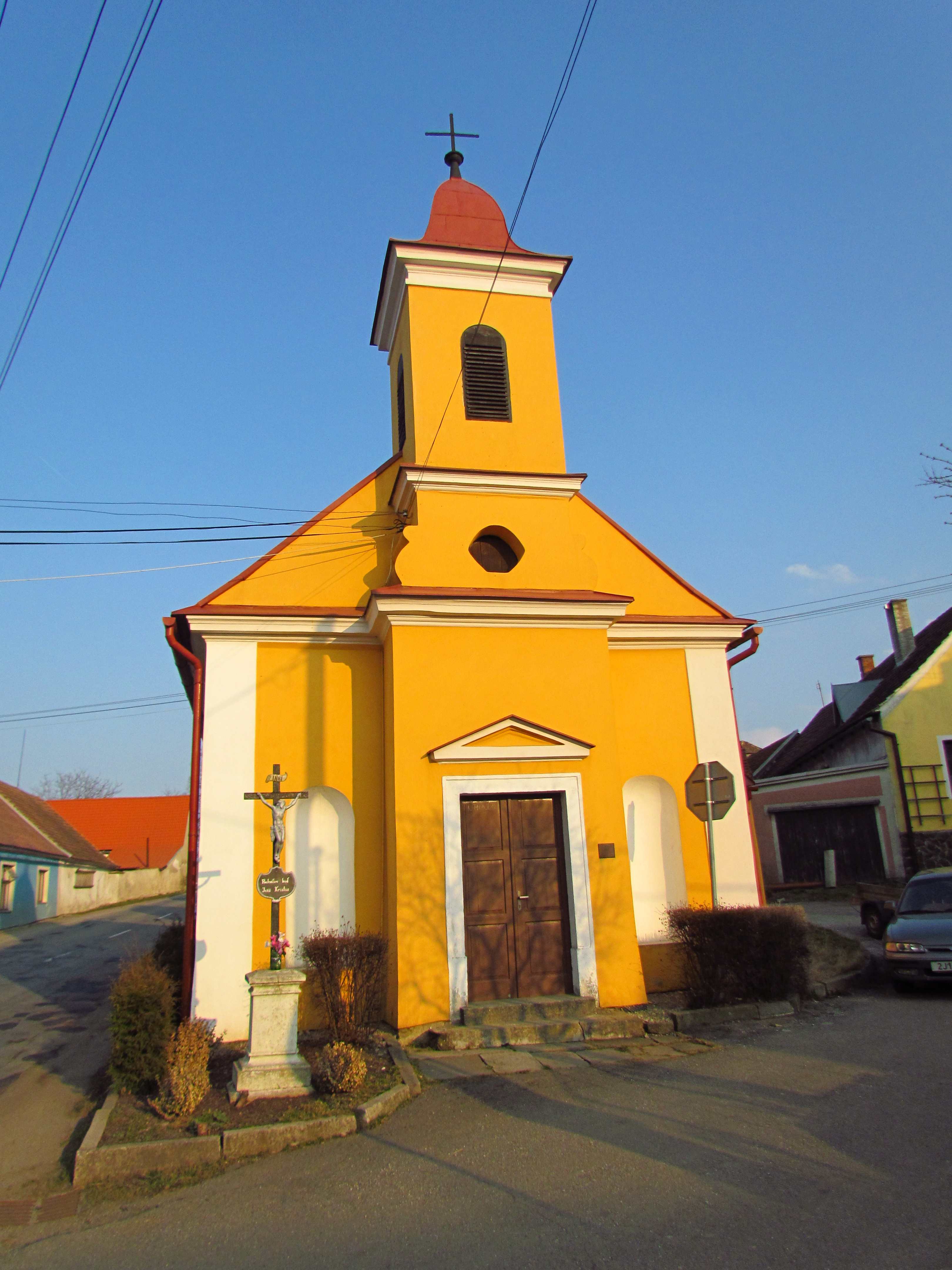 Chapel of Our Lady of Mount Carmel in Zašovice, Třebíč District.